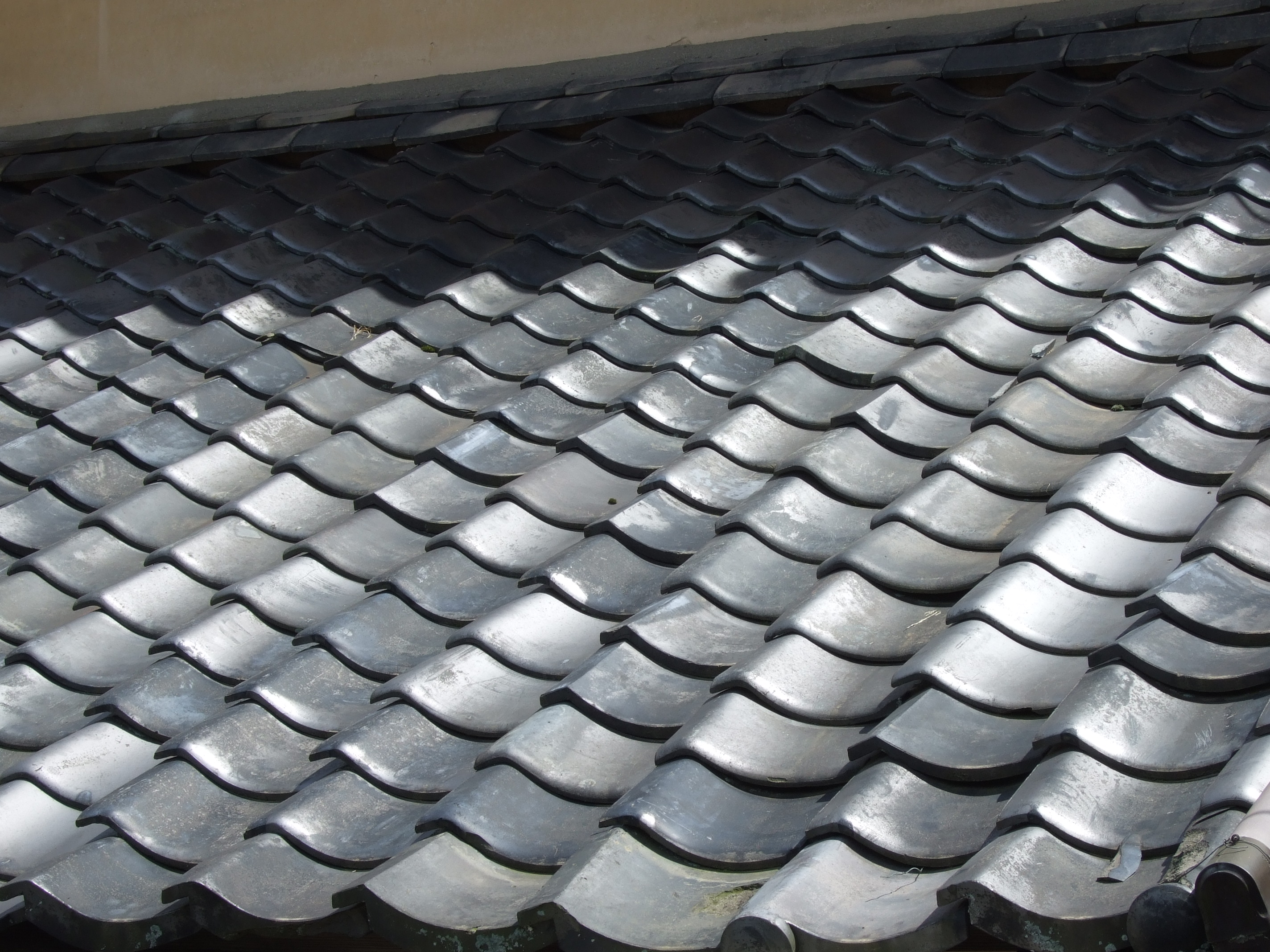 japanse smoke roof tile(ＩＢＵＳＨＩ＿kawara）